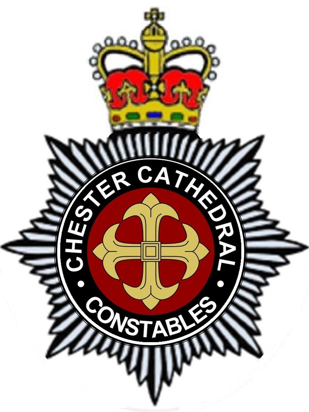 Chester Cathedral Constables' Crest